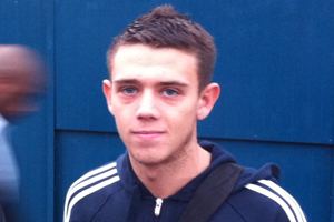 Photo taken by myself of Stuart Hendrie following the Tamworth Vs. Hayes & Yeading United game on March 12 2011 at The Lamb Ground.